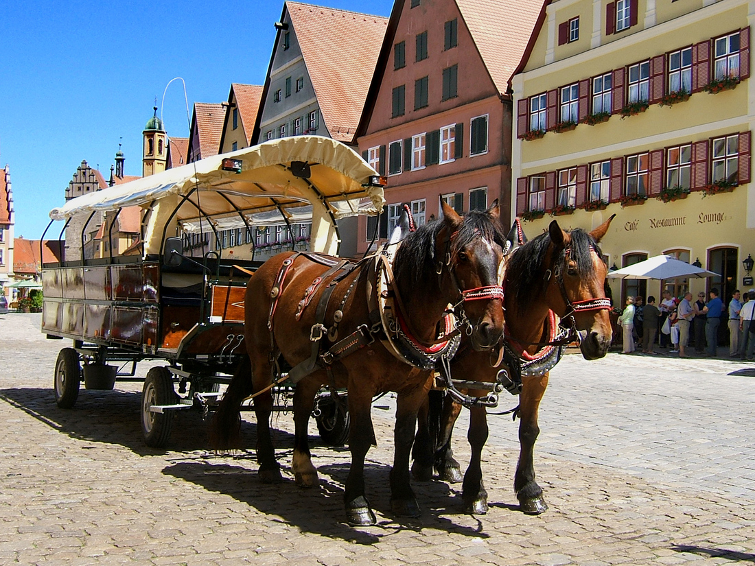 Covered wagon drawn by a pair of horses, used for sight-seeing tours in Dinkelsbühl, Germany